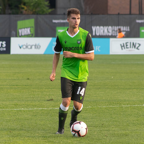 Emmanuel Zambazis during his debut match for York9 FC.